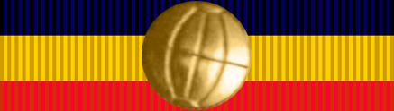 Presidential Unit Citation – USS Triton (SSRN-596) dated May 10, 1960